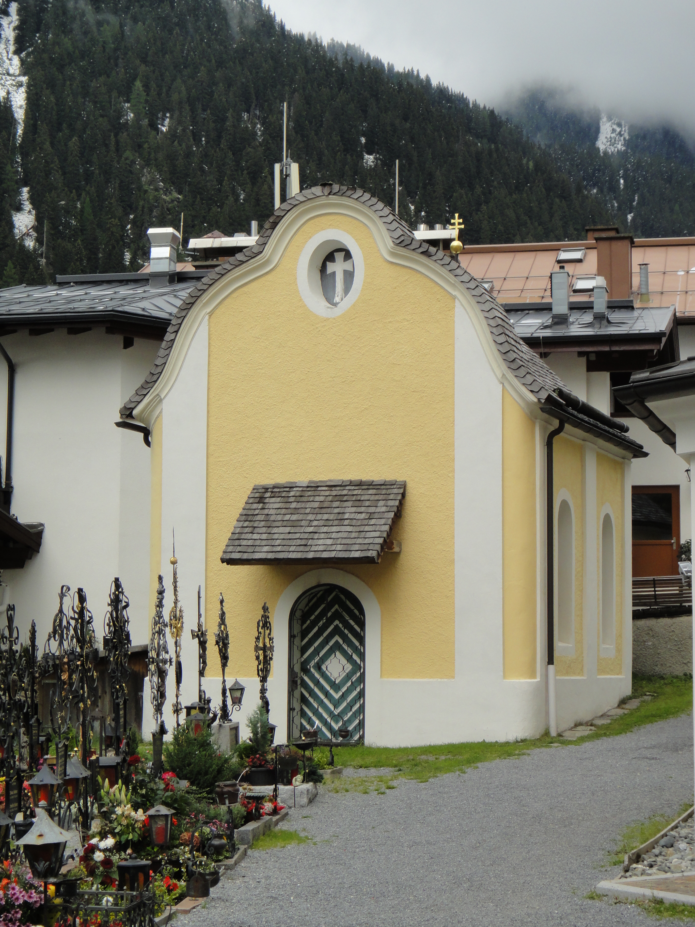 This media shows the remarkable cultural object in the Austrian state of Tyrol listed by the Tyrolean Art Cadastre with the ID 22600. (on tirisMaps, pdf, more images on Commons, Wikidata)